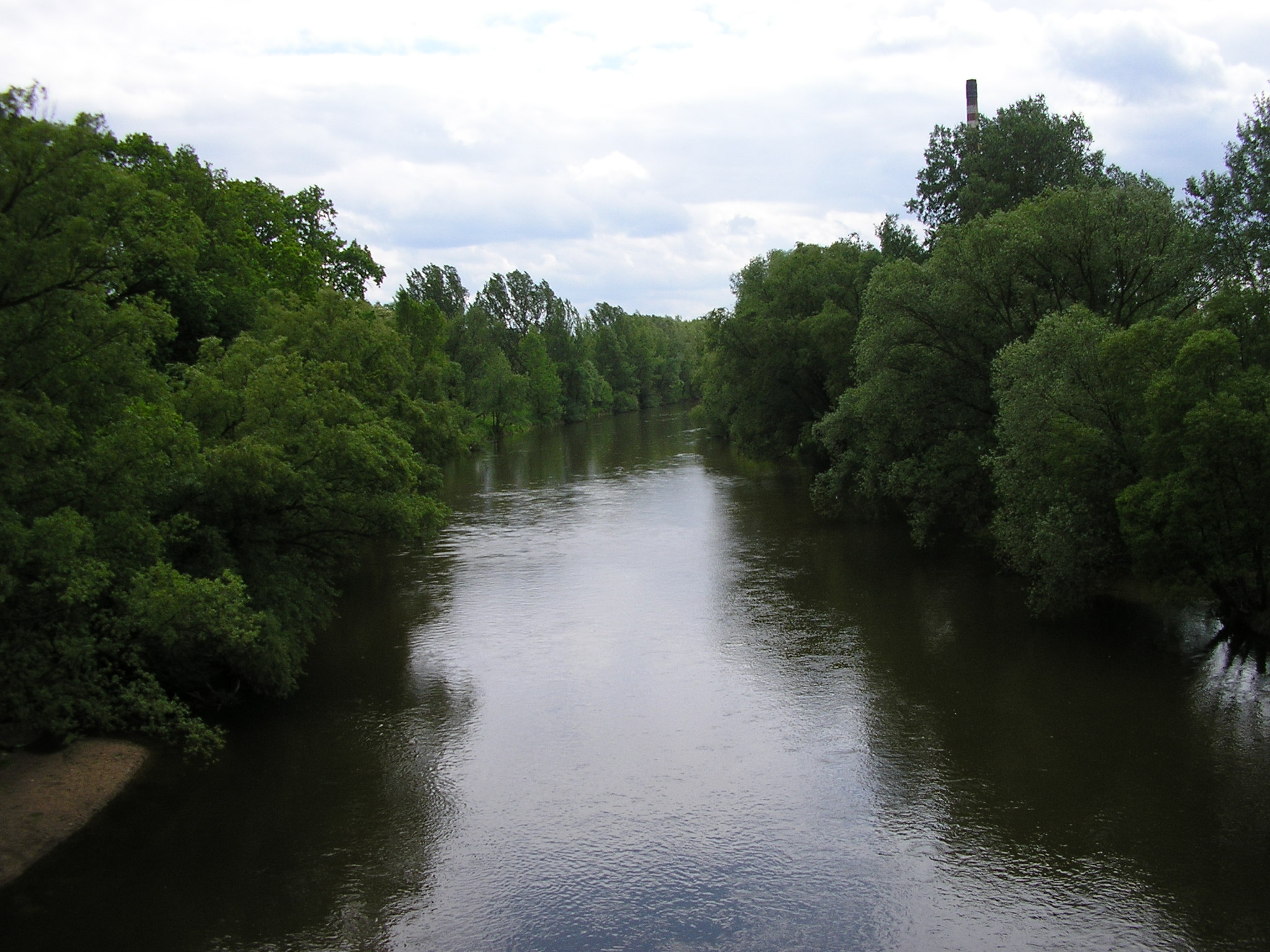 Bóbr River in Żagań, Poland. Hornjoserbsce: Rěka Bobr w Zahanju